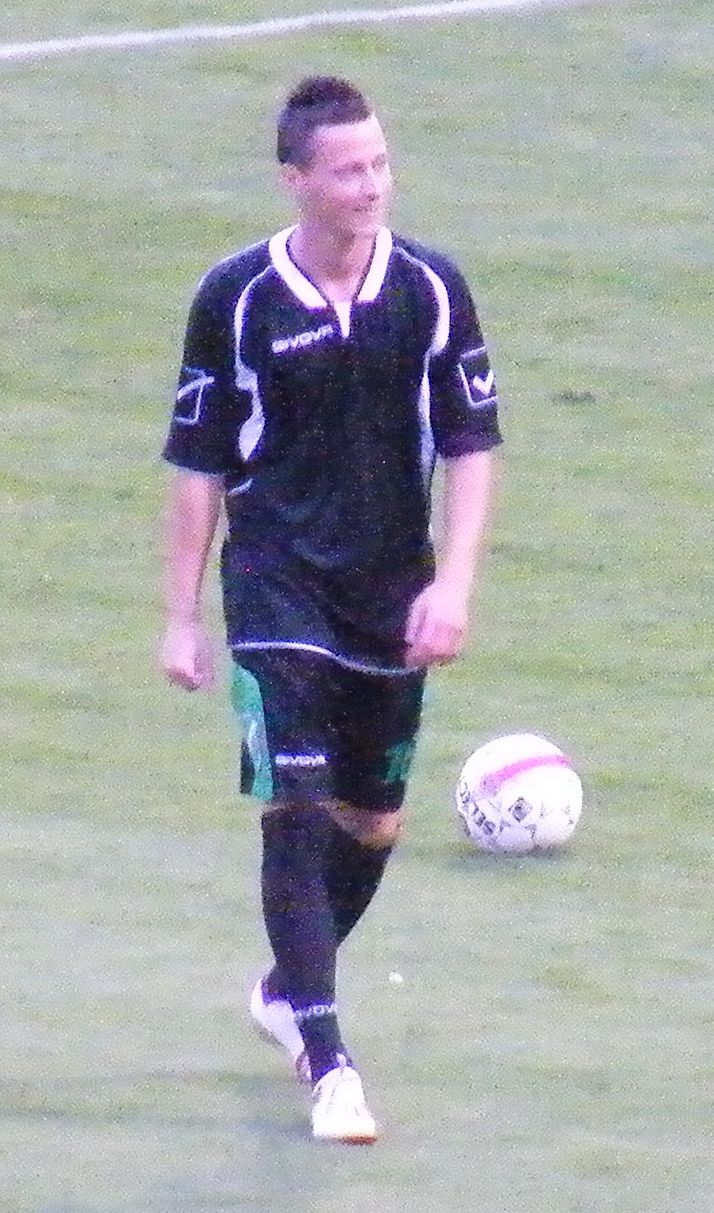 Gábor Reszli Hungarian association football player.